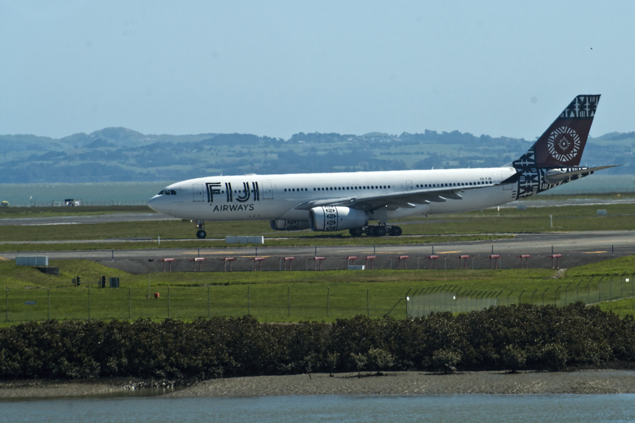 A few hours to kill in AKL so what do you do? Why go and play with your camera and new tripod at the viewing enclosure at the airport!